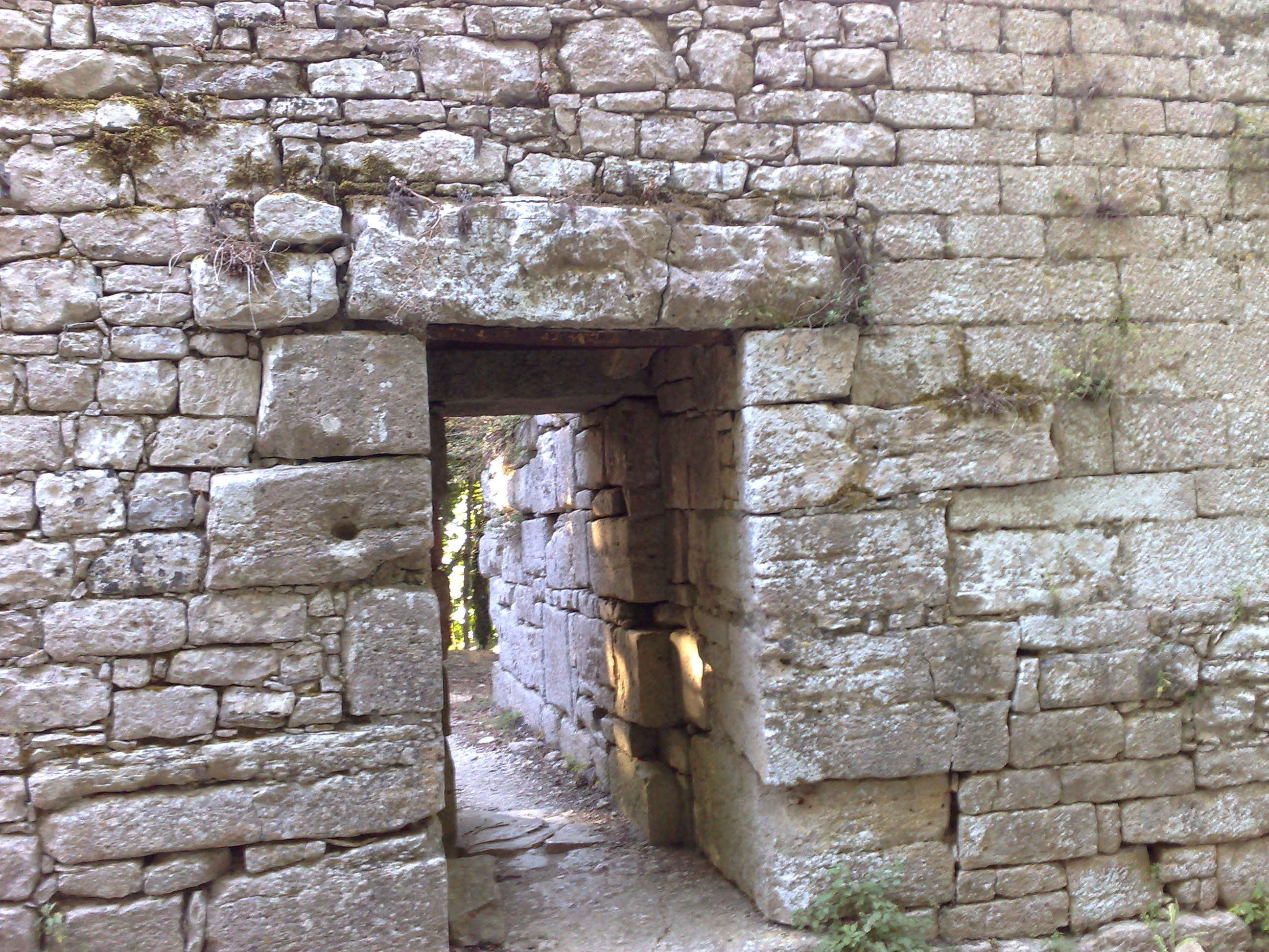 punic walls inErice